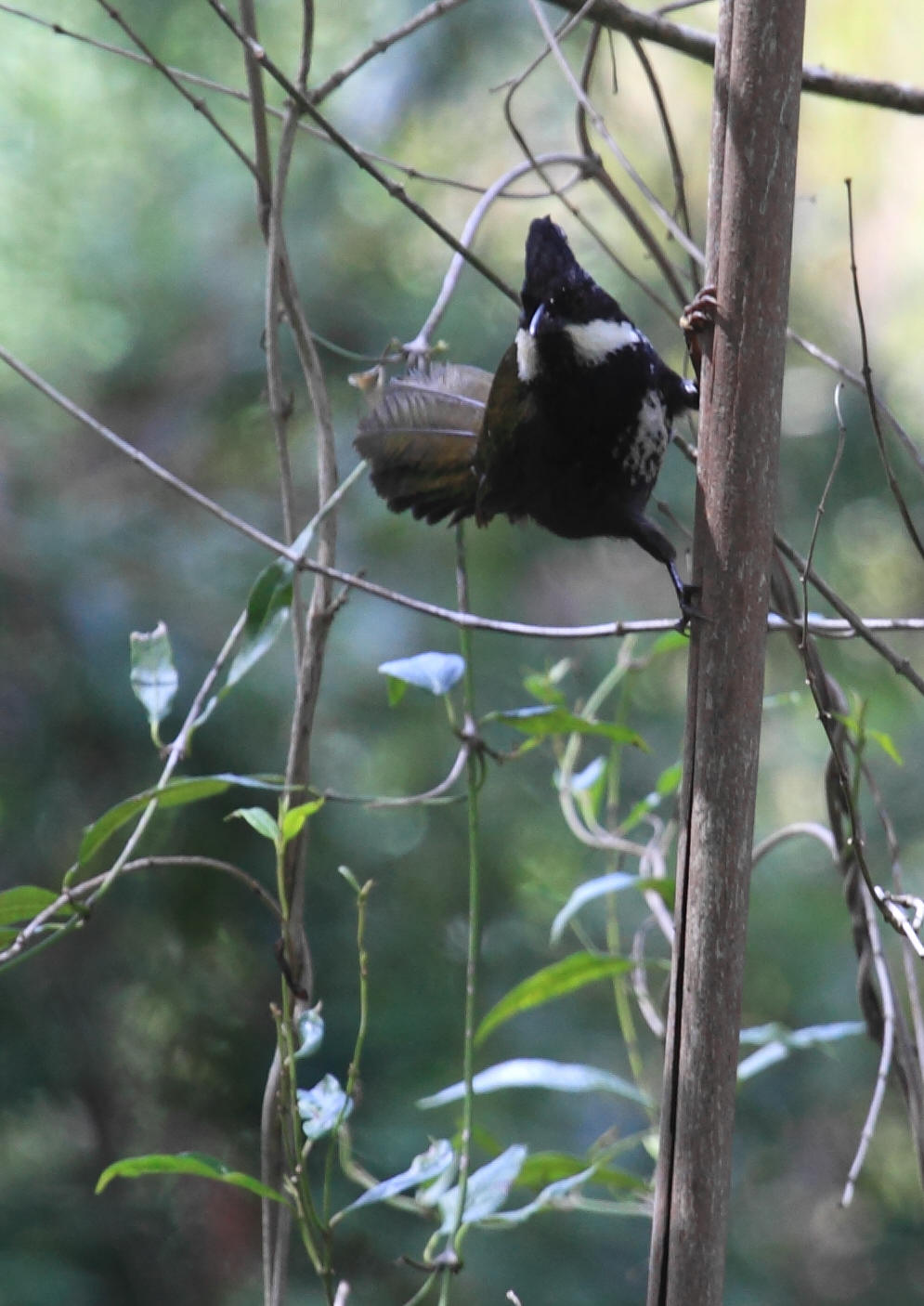 Eastern Whipbird (Psophodes olivaceus), Dandenong Ranges, Victoria, Australia